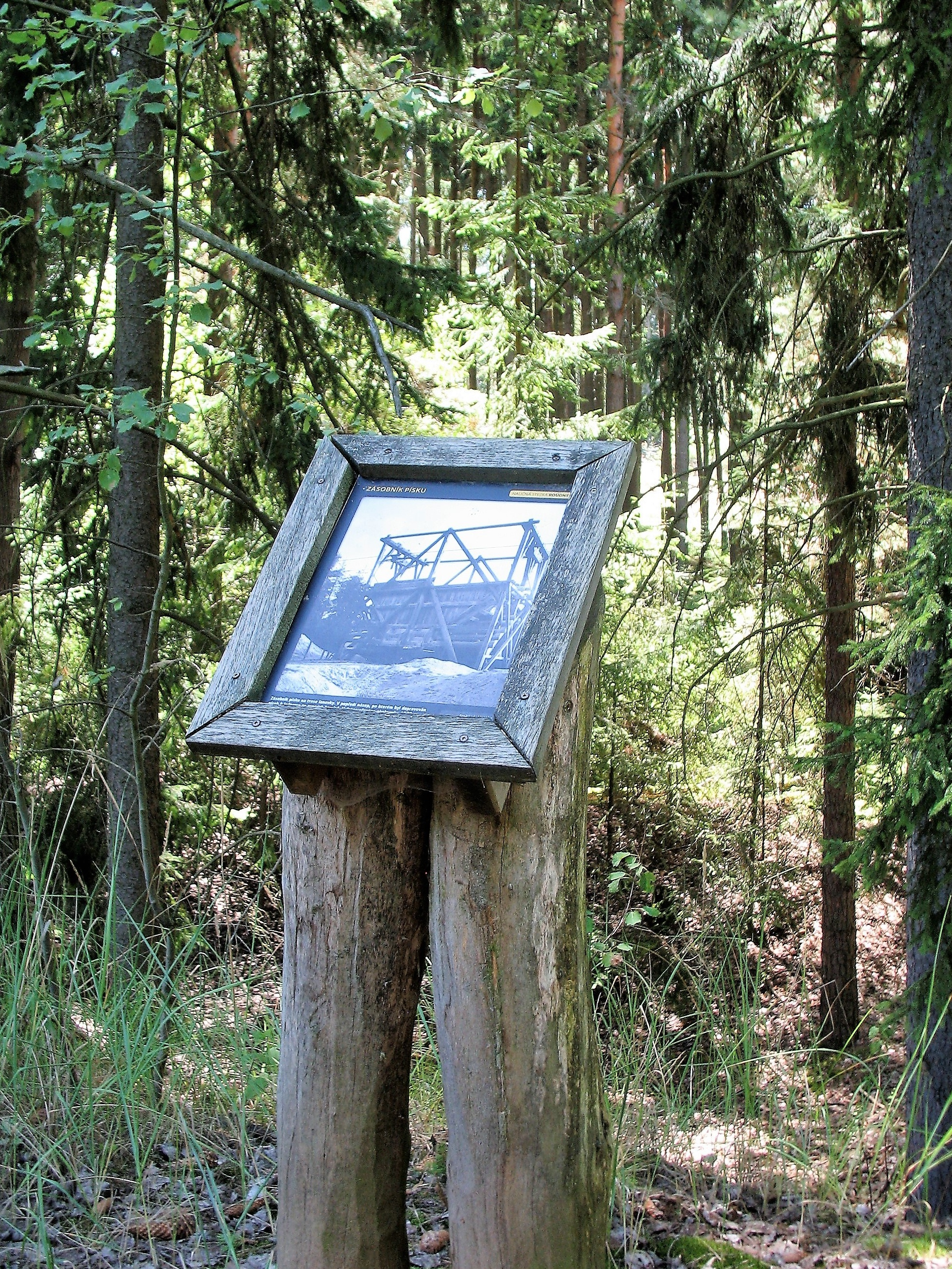 Former Roudný gold mine, Central Bohemia